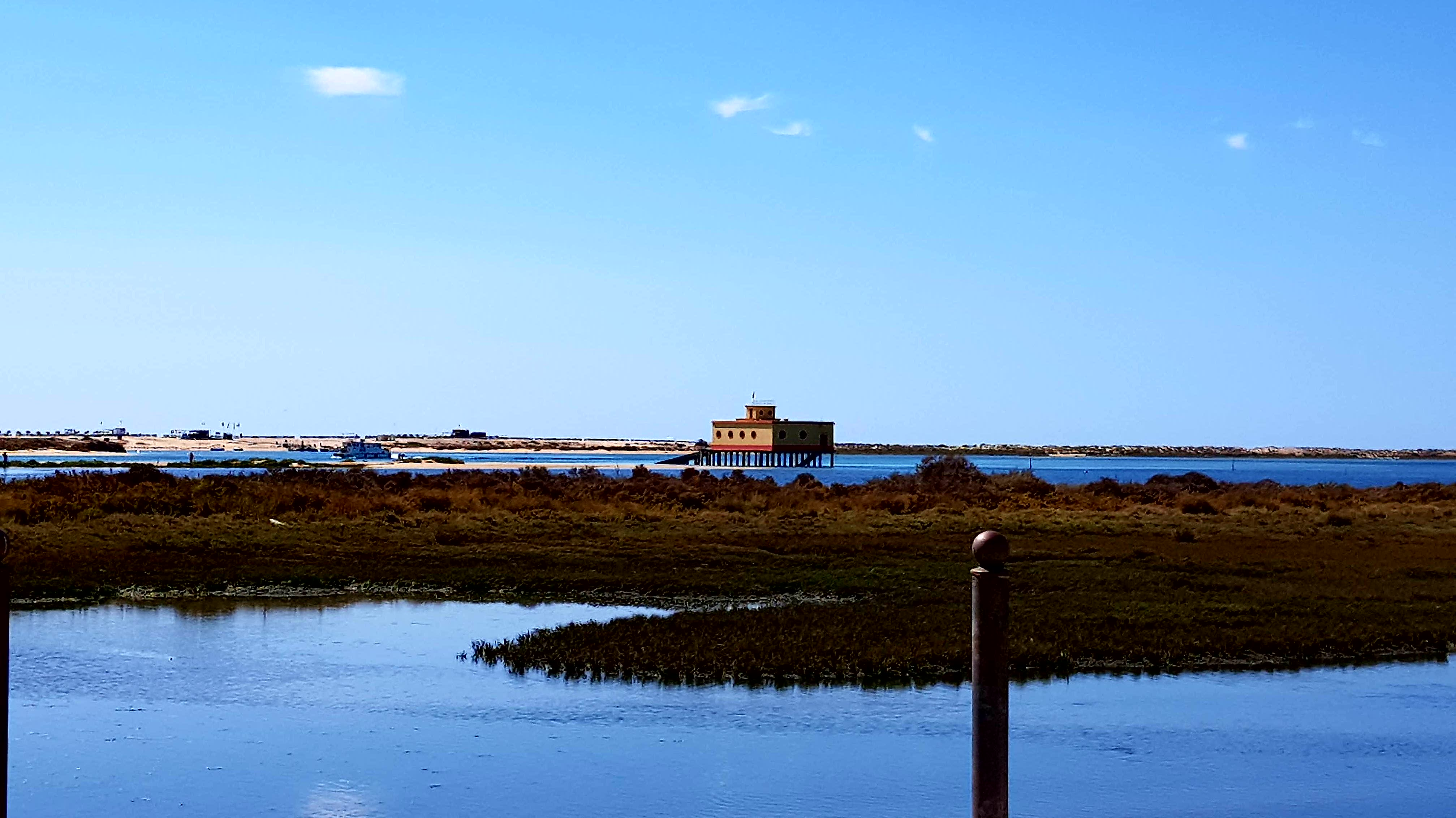 Island of Armona, Fuseta-mar